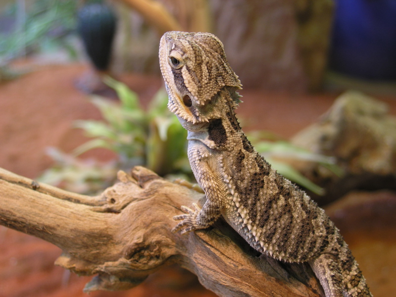 Young Pogona vitticeps